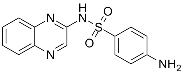 structure of sulfaquinoxaline